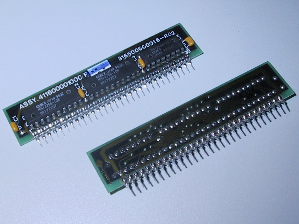 Image of two SIPP memory modules.